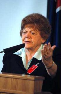 Former Governor of Utah Olene Walker giving a speech on 'Women As Policy-Makers'.